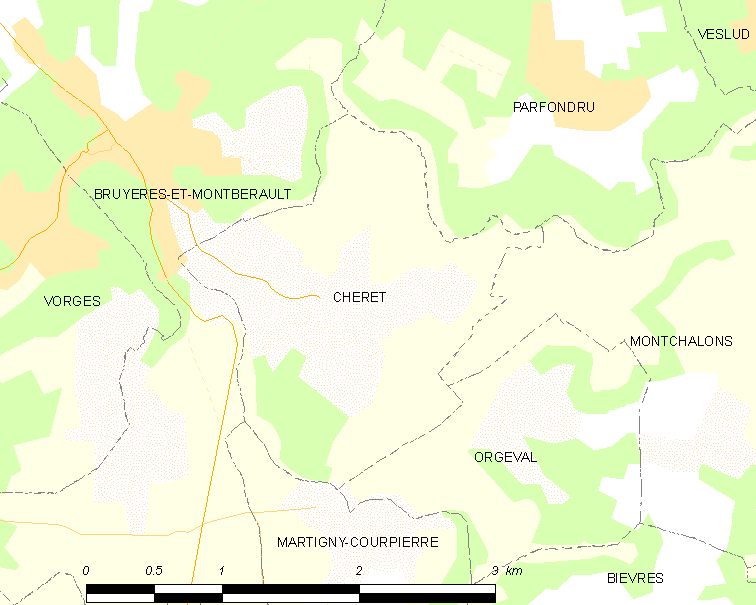 Map of French commune: Chérêt Map commune FR insee code 02177.png